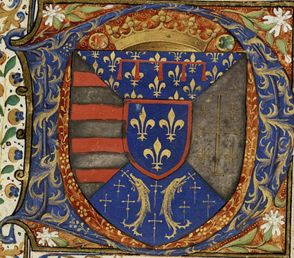 René I of Naples